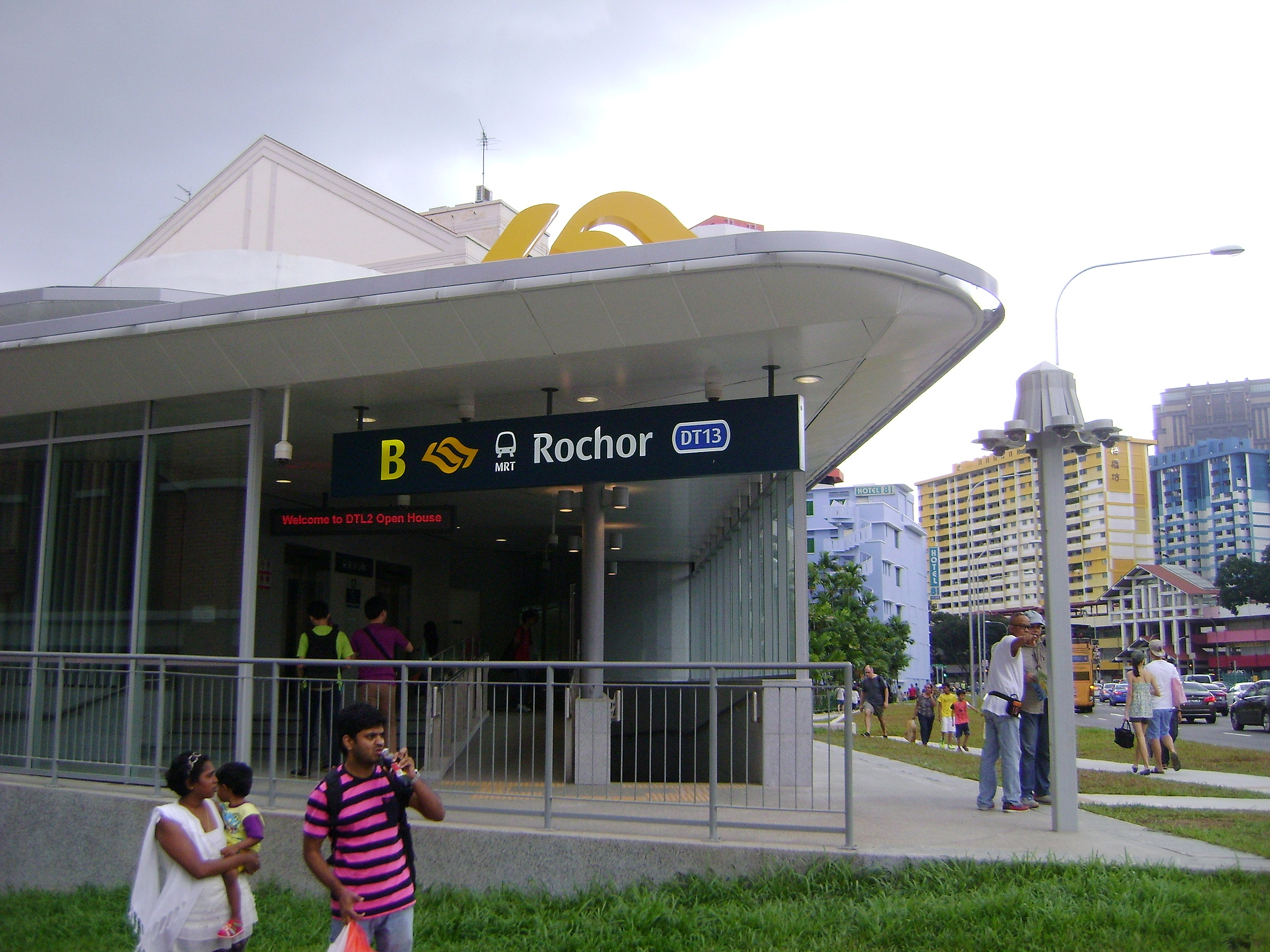 My own file...